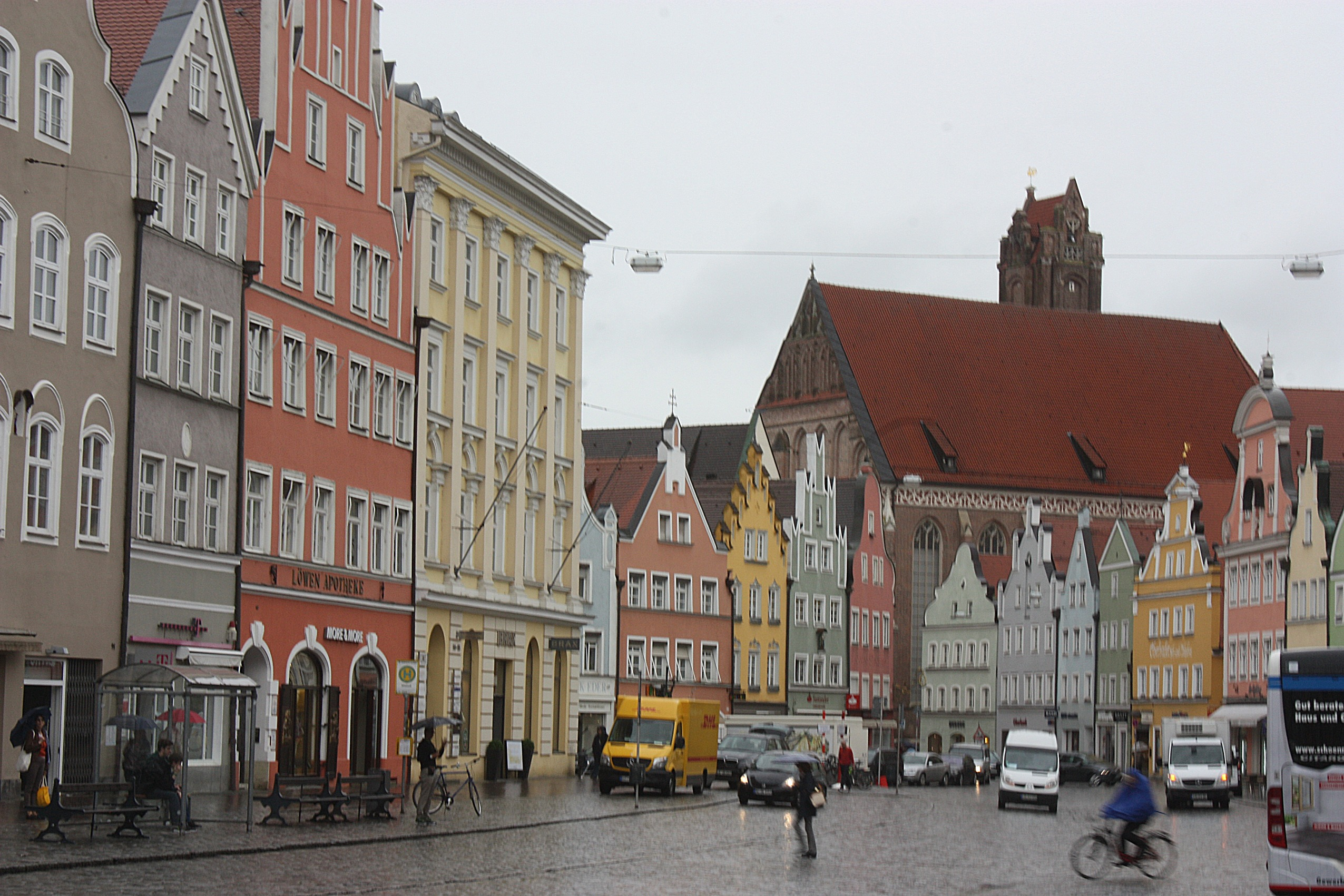 Landshut, the northern part of the Altstadt and the Holy Ghost Church